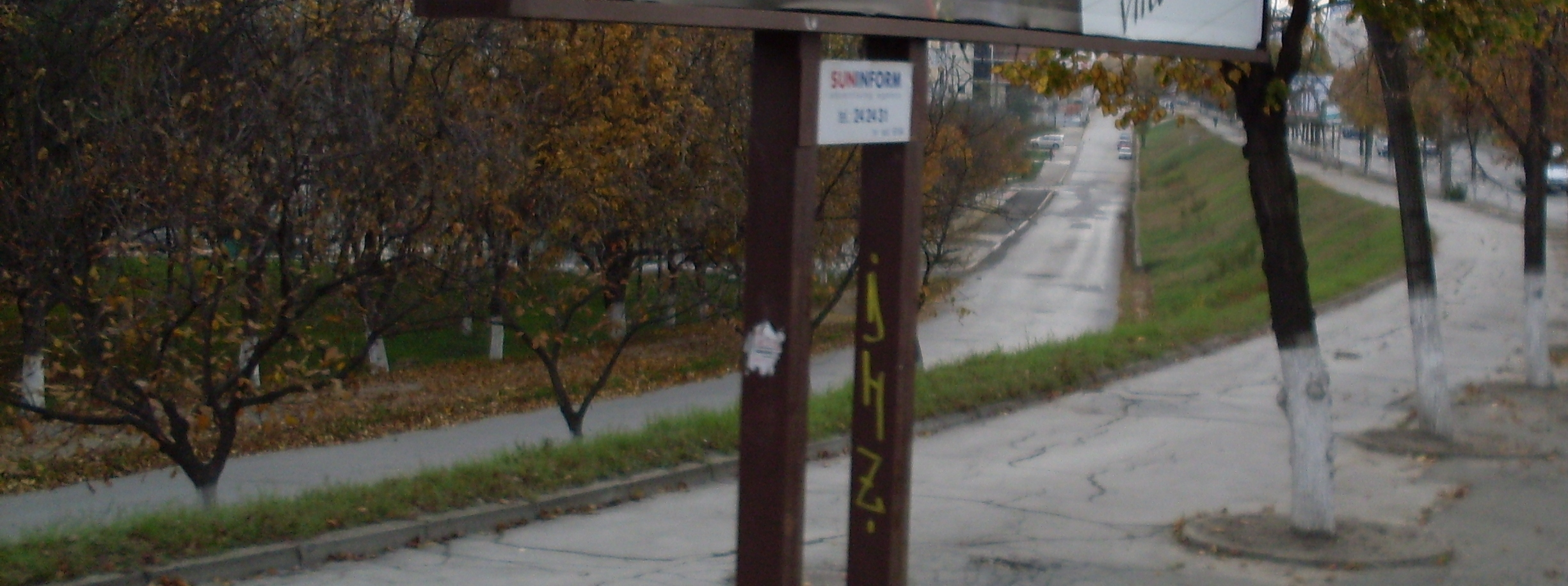 A Chişinău street that is parallel with Renaşterii Avenue